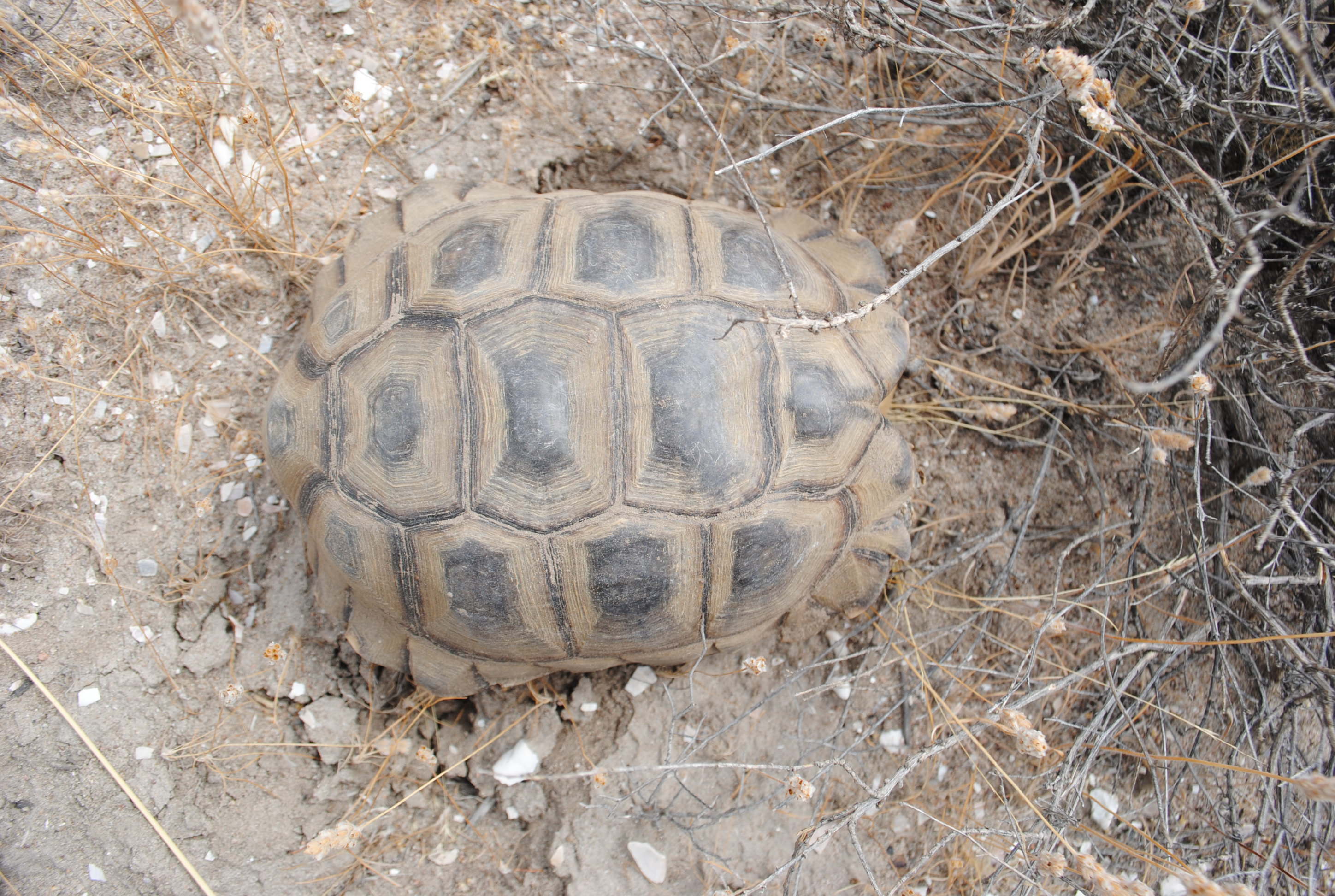 Chelonoidis chilensis known as "Tortuga terrestre patagónica" adult specimen, photo taken 8 km south of Las Grutas, Rio Negro Province, Patagonia Argentina